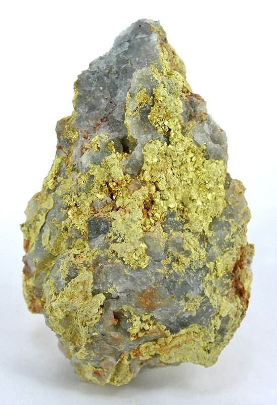 Ferrimolybdite Locality: Kingman District, Hualapai (Hualpai) Mts, Mohave County, Arizona, USA (Locality at ) Size: 5.1 x 3.3 x 1.6 cm. A superb, unusually rich specimen of CRYSTALLIZED Ferrimolybdite from a classic locality, probably from the early 1900s. Usually one sees only a crust of microcrystals with no distinct form, but here we have true crystals. Rich on both sides of the specimen. Ex. American Museum of Natural History, with label.